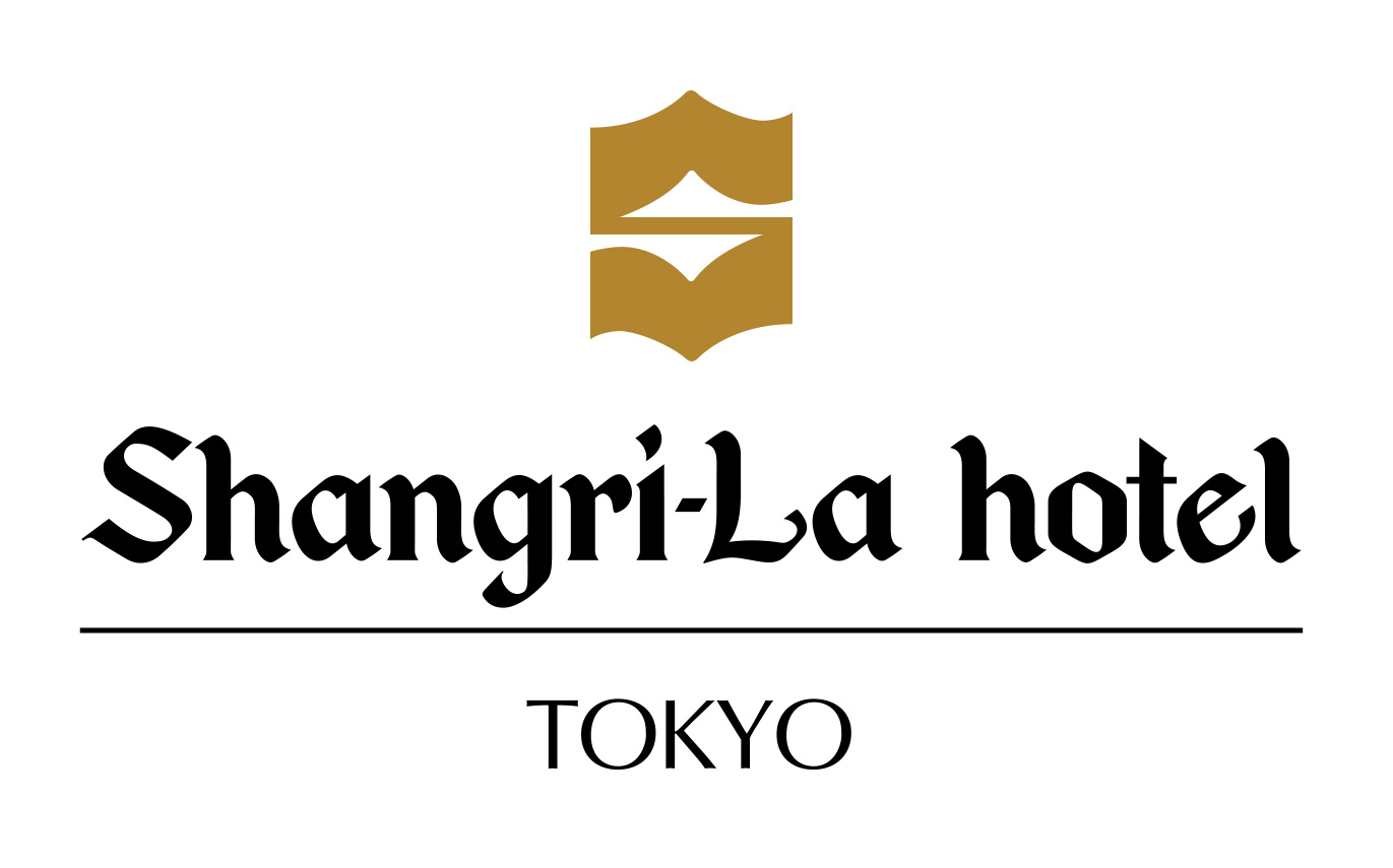 Company Logo